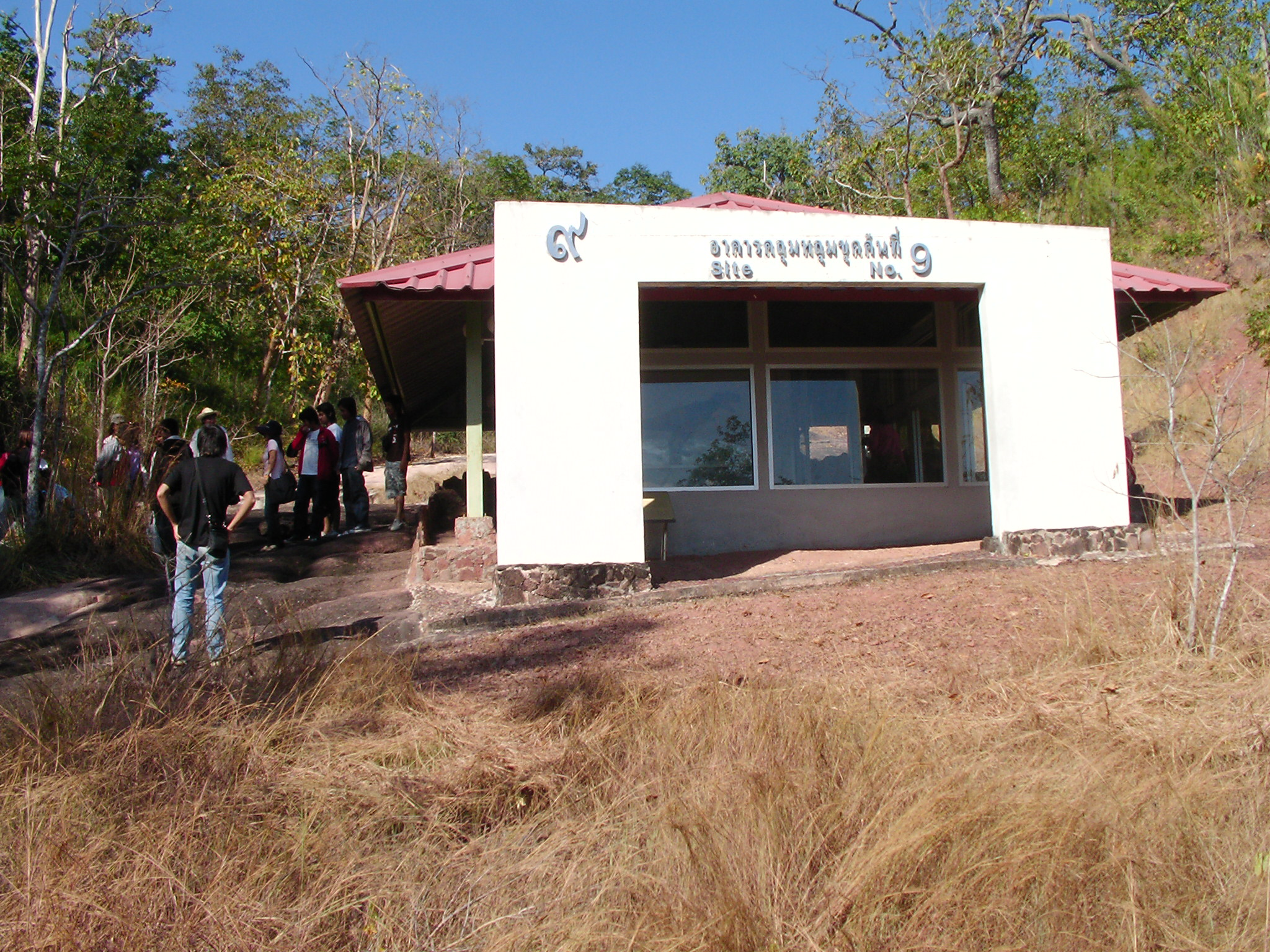 Dinosaur site no.9, one of four developed sites for tourism in Phu Wiang National Park, Khon Kaen, Thailand, first discovered by Somchai Triamwichanon.